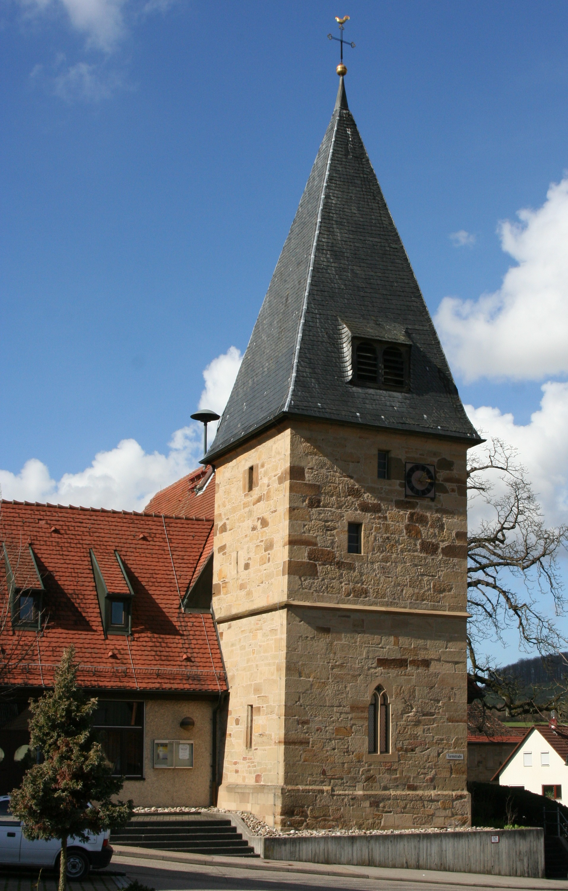 The tower of the St John's church in Eberstadt-Hölzern